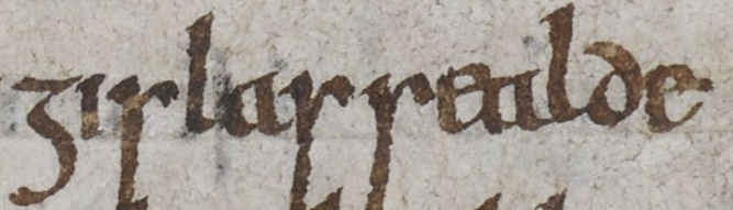 gislas sealde ('gave hostages'); from the Anglo-Saxon Chronicle.